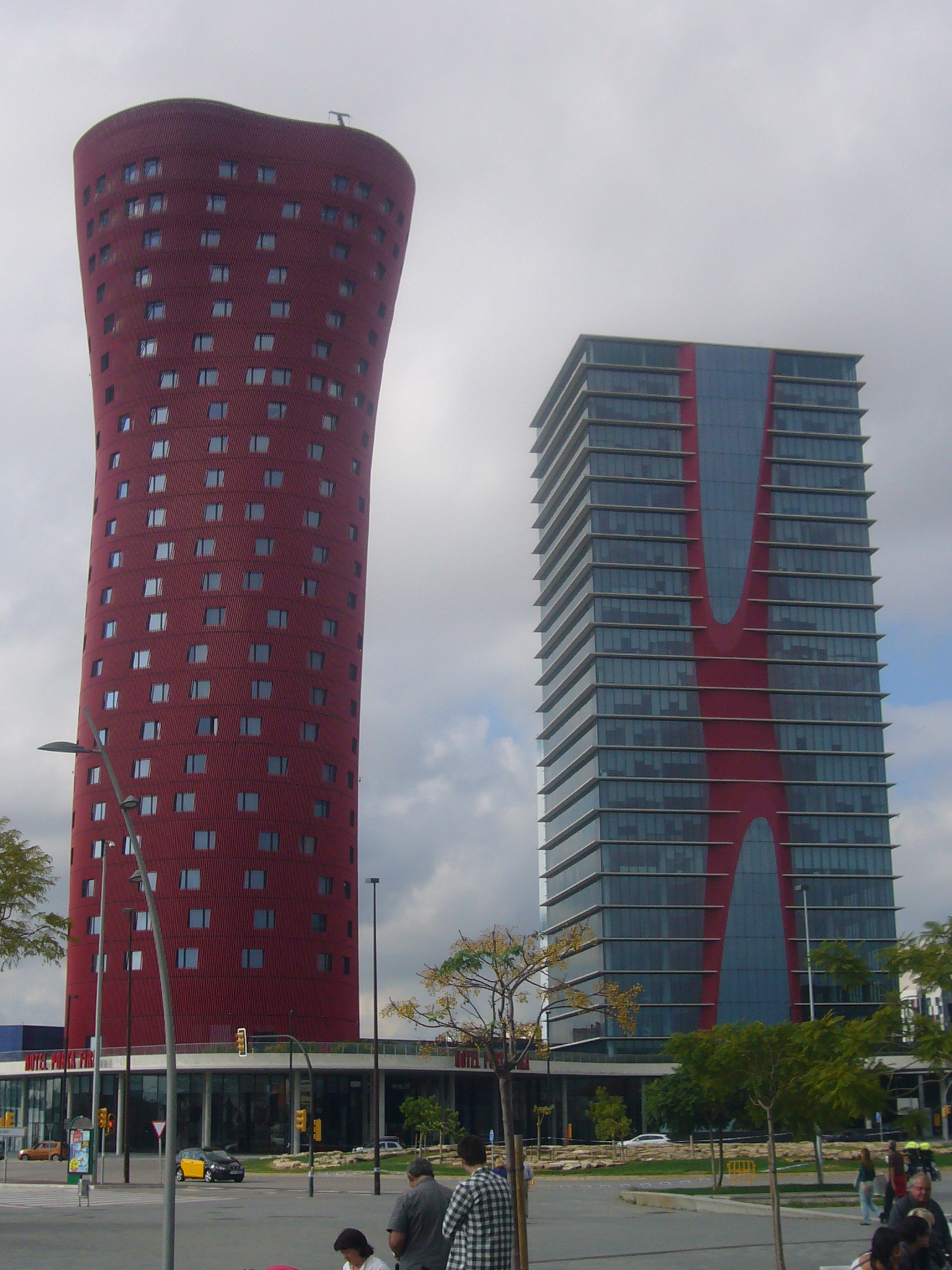 Toyo Ito towers, in L'Hospitalet